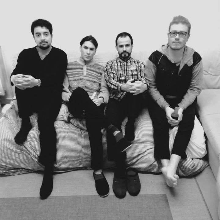 Steps lineup